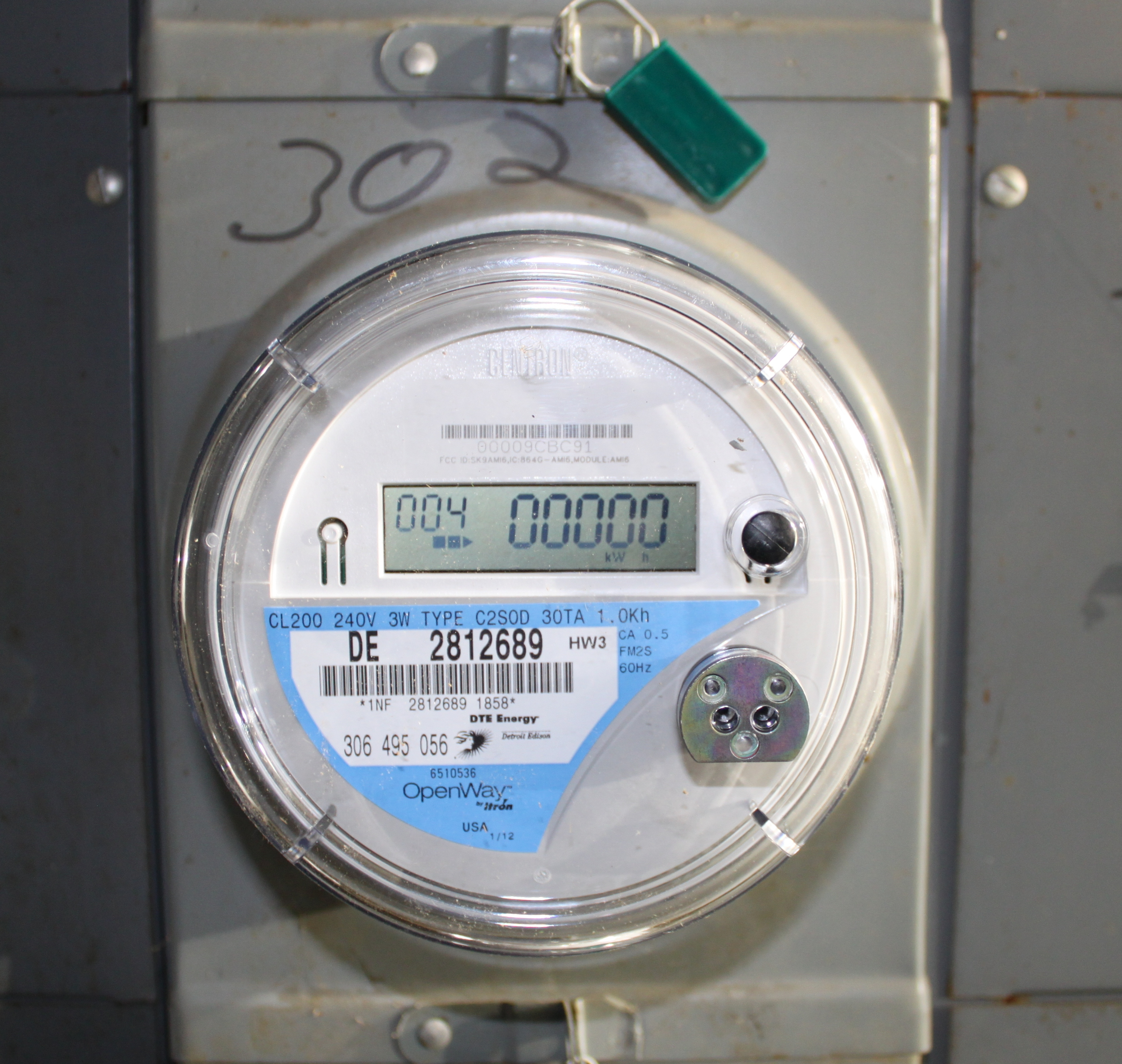 An Itron OpenWay residential electricity meter with two-way communications for remote reading in use by DTE Energy at the Fairway Trails apartment complex in Ypsilanti Township, Michigan.